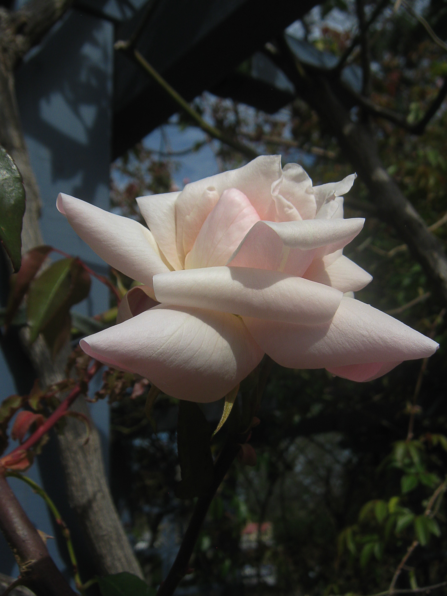 Rose 'Courier', Hybrid Gigantea 1930 by Alister Clark; photographed in the Alister Clark Memorial Rose Garden, Bulla, Victoria